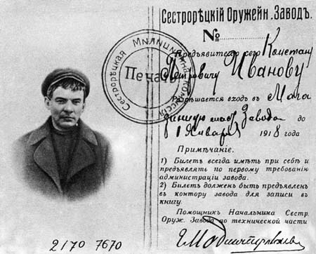 the counterfeit identity card issued by the Sestroretzk authorities in the name of Konstantin Petrovich Ivanov, the worker of the Sestroretzk Armory with the photo of Vladimir Ilyich Lenin (shaved, without moustache and beard)